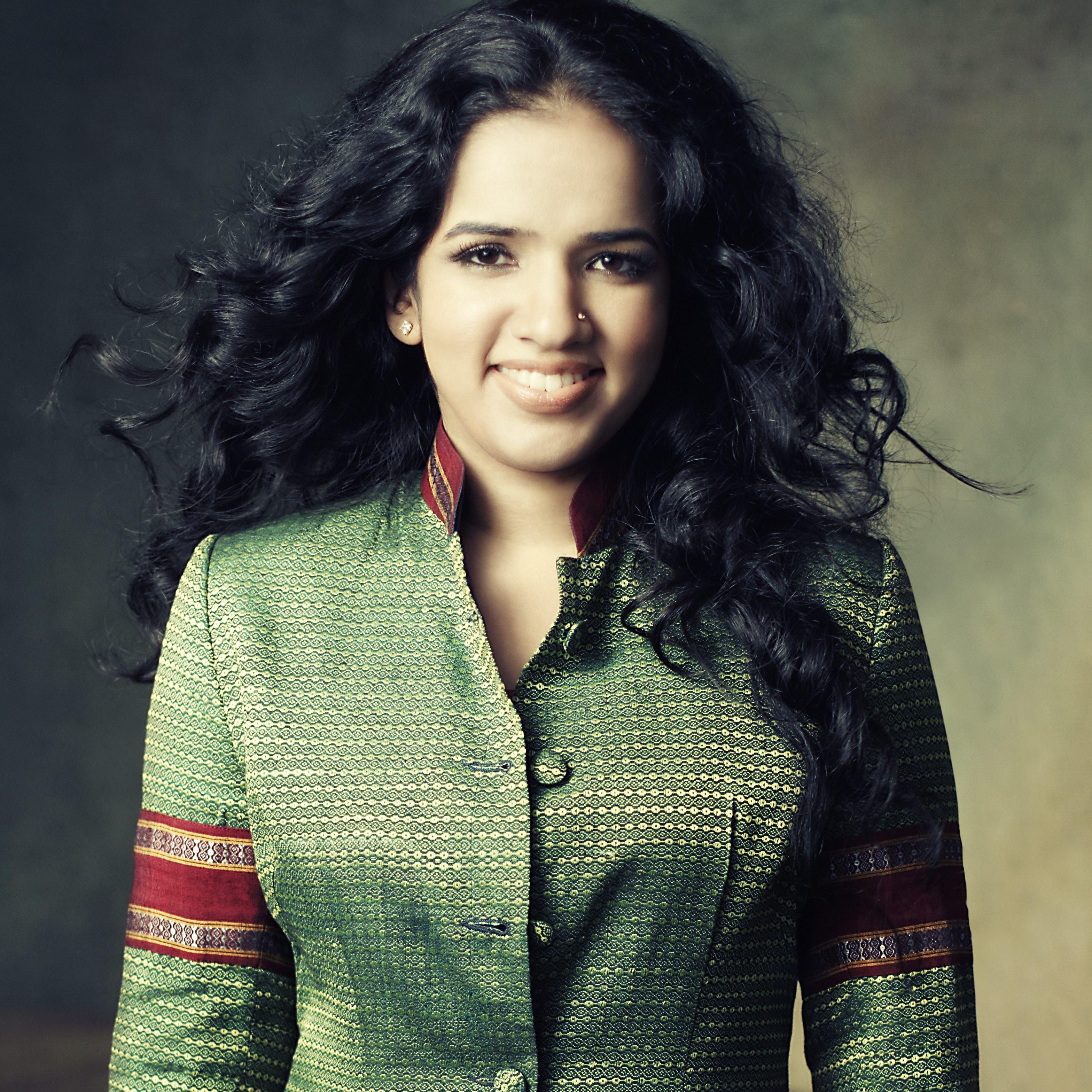 Bindu Subramaniam - file photo